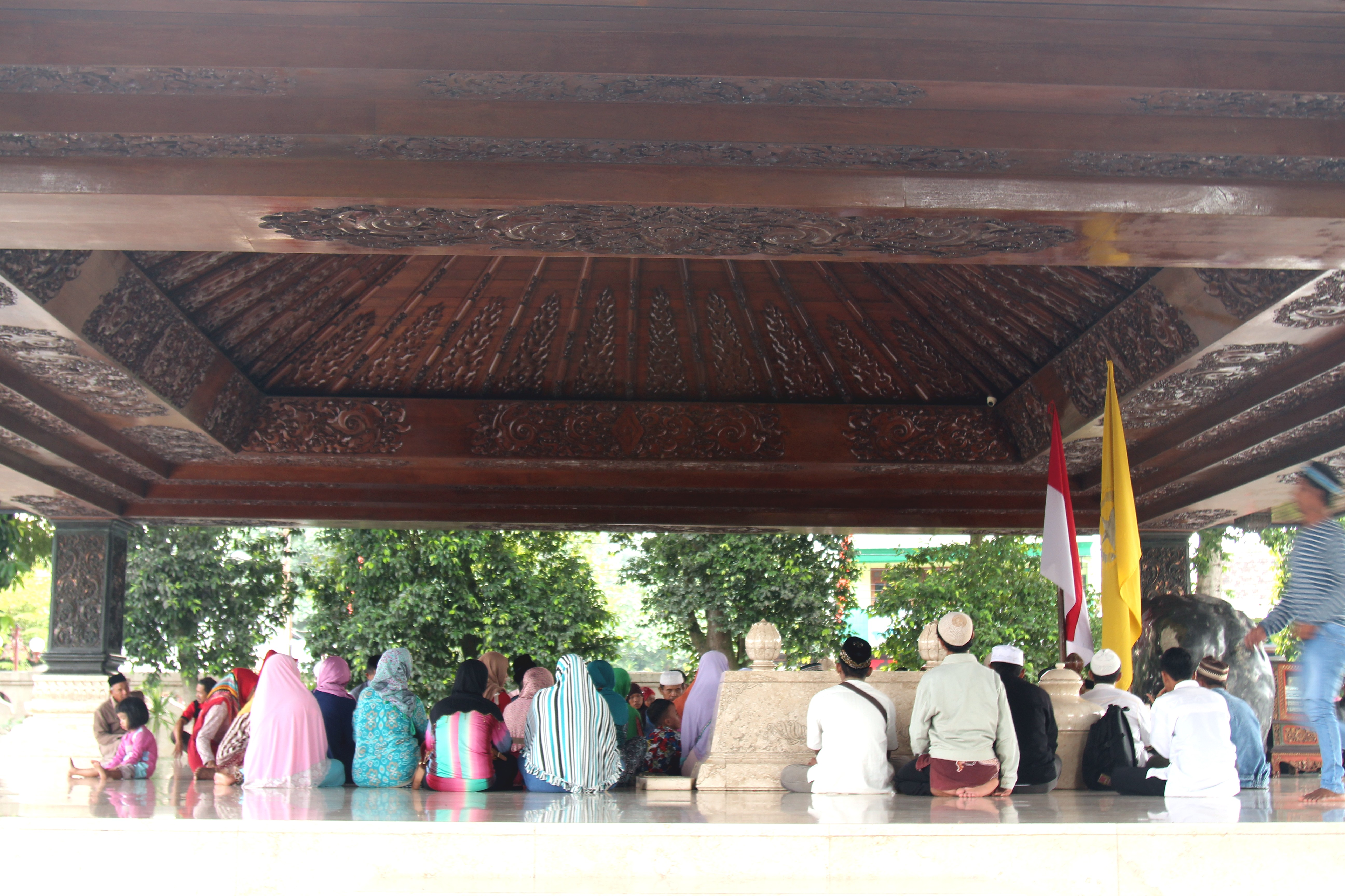 Pilgrims at Sukarno's Grave in Blitar, East Java (2016)